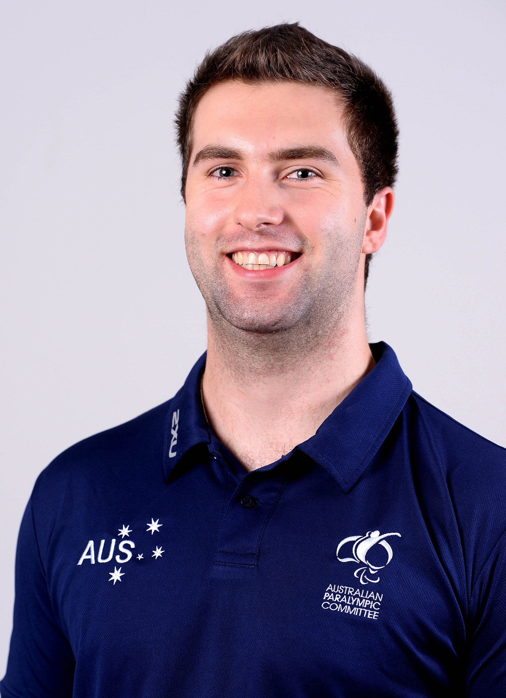 Portrait photograph of Michael Auprince taken at team processing session for shadow members of 2016 Australian Paralympic team